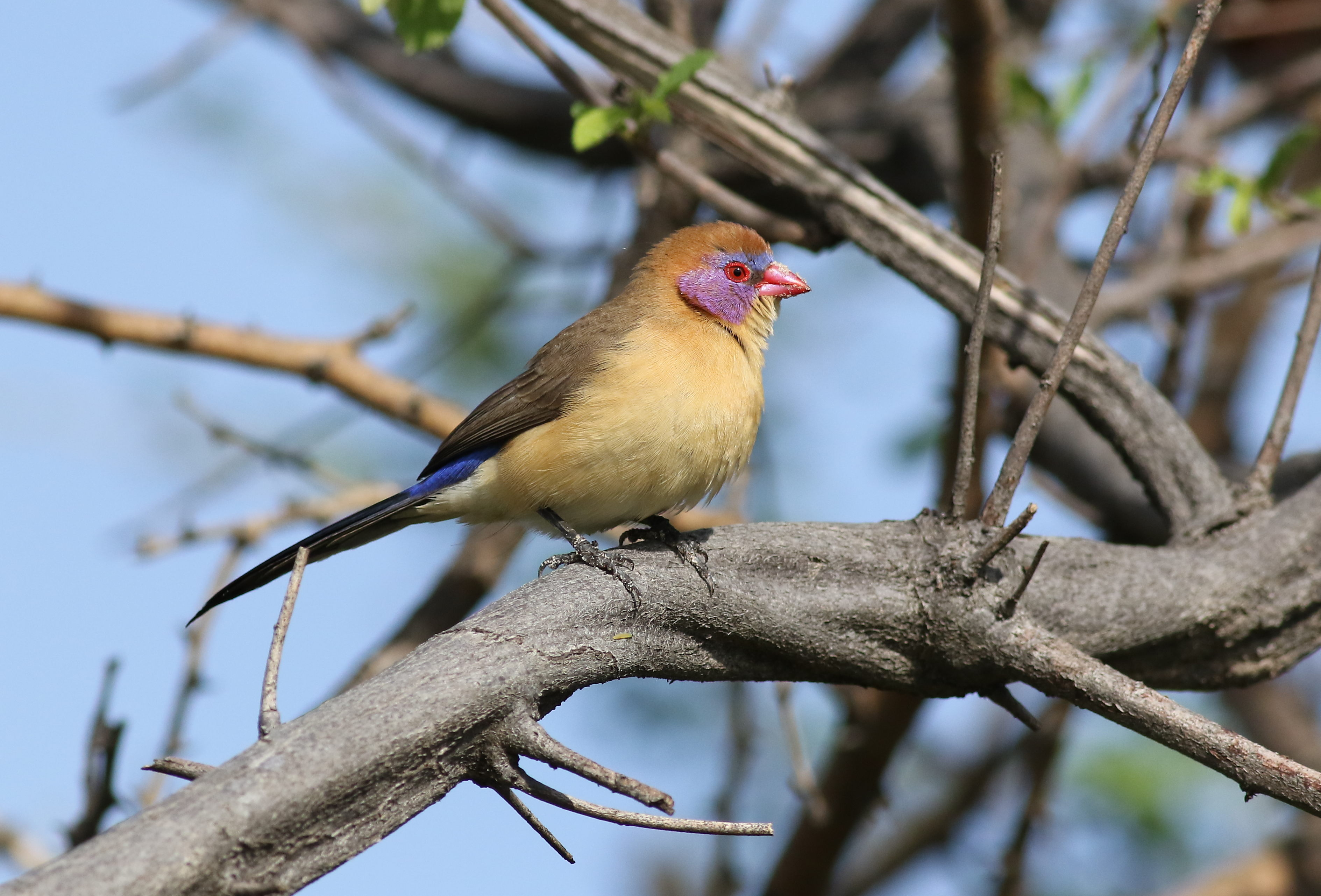 Violet-eared waxbill, Uraeginthus granatinus, at Elephant Sands Lodge, Botswana